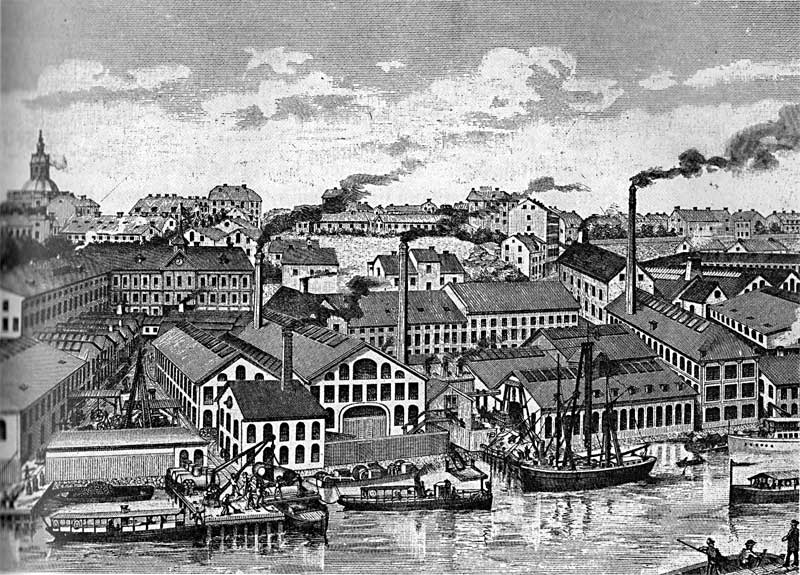 Xylography of Bolinders Machine Workshops, Stockholm, 1893.